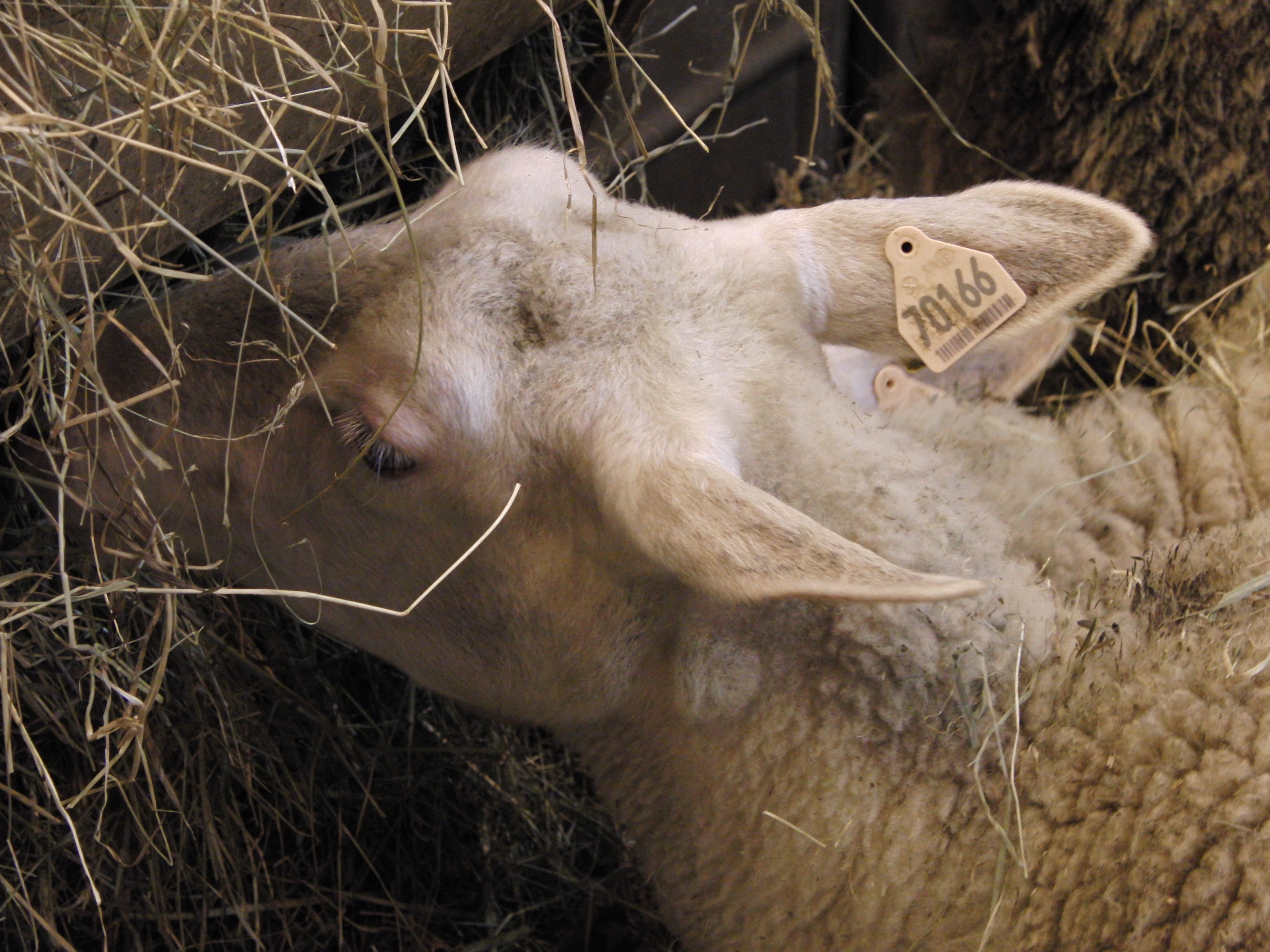 Berrichon de l'Indre sheep - Salon international de l'agriculture 2011, Paris, France